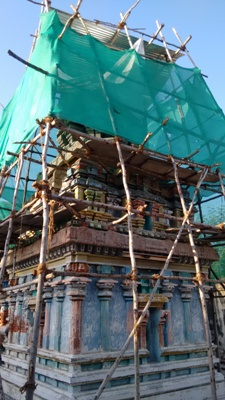 Darasuram avudayanathasamy temple தாராசுரம் ஆவுடையநாதசுவாமி கோயில்